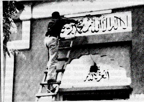 Pakistani police erasing the name of Muhammad from the Kalima of a Ahmadiyya Mosque in Faislabad (at "Sir Shamsheer Road"), Pakistan.